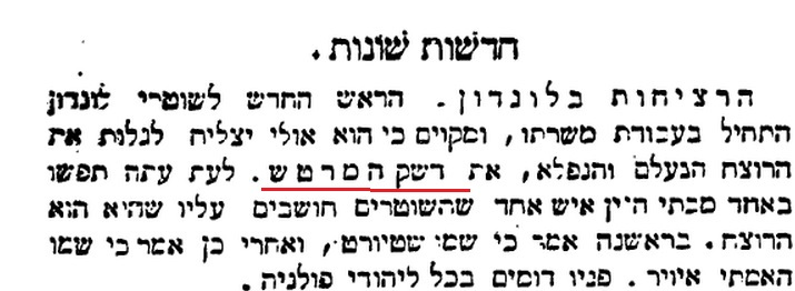 A newspaper report in HaZvi, published in Jerusalem, Ottoman Empire, wondering "if the new police chief in London will be able to track the mysterious killer, 'Jack the Ripper' (Jeck haMeratesh)?"